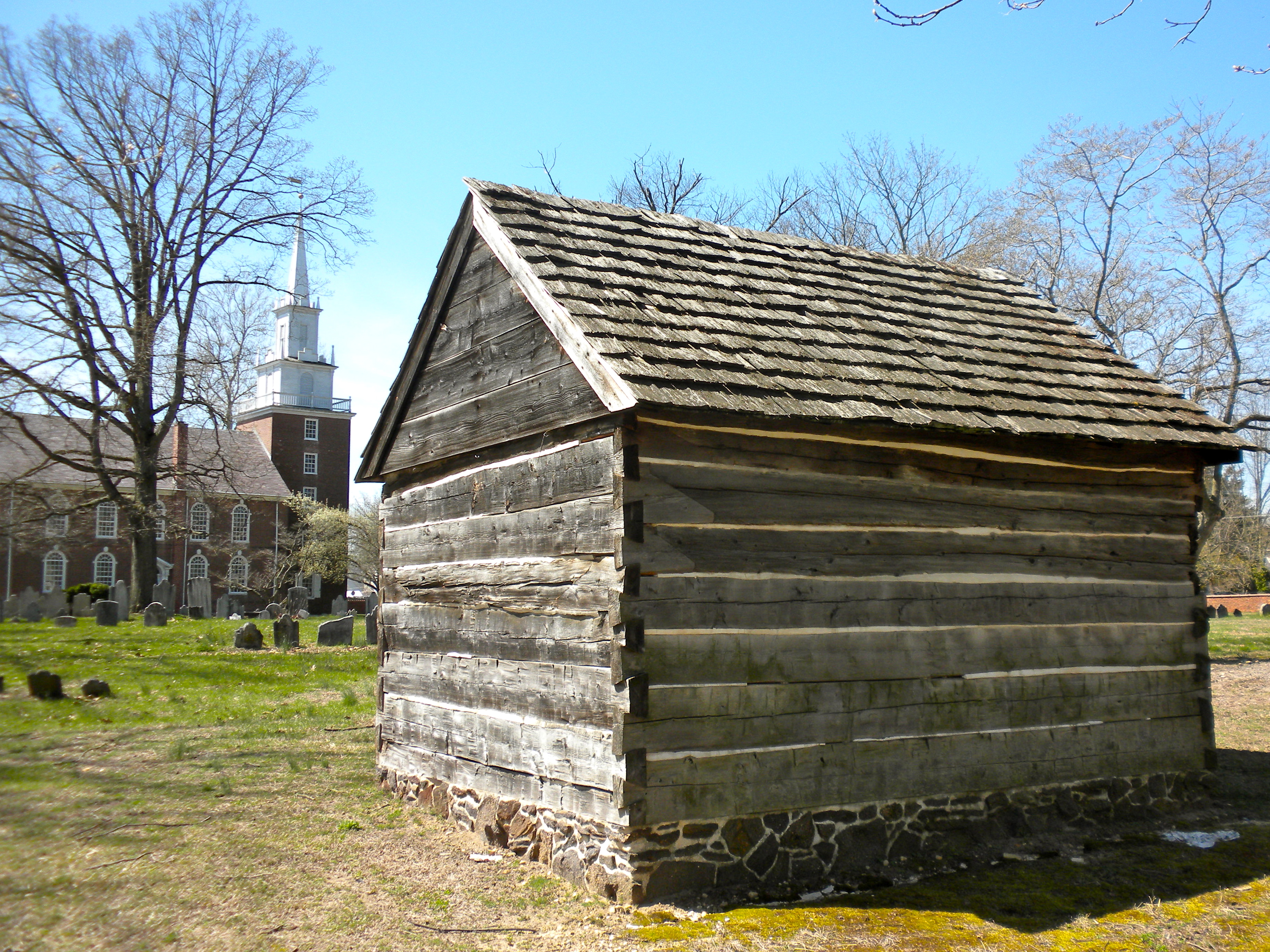 Mortonson-Van Leer Log Cabin, sometimes Schorn log cabin in New Sweden Park, Swedesboro, NJ. In the background is Trinity Church, aka Old Swedes Church, which is on the NRHP. The cabin is not on the NRHP, but if the signs are to be believed ... The cabin has been moved here from the Grand Sprute Plantation on Raccoon Creek. It was built by Morton Mortonsen, grandfather of John Morton, signer of the declaration of independence. Morton Mortonsen came to America in 1654 and died before 1700. Cabin was NOT used as a residence - but as a granary - and also reportedly as a hiding place on the undergrand railroad. At least 2 residences associated with Mortonsen are on the NRHP (near Philadelphia). This is a particularly interesting log cabin because of the dovetailed logs and the close fit of the logs, leaving very little to be chinked between the logs. This is the theory of Swedish log cabins (e.g. shown at American Swedish Museum in Philadelphia); but rarely seen in old cabins. NW corner of Church St. and King's Hwy.